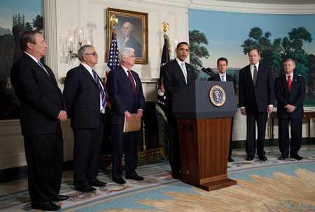 President Barack Obama addresses reporters in the Diplomatic Reception Room of the White House Wednesday, Feb. 25, 2009, following a meeting with Congressional financial committee leaders and his economic advisors. Joining President Obama are from left, National Economic Council Director Lawrence Summers, House Financial Services Committee Chairman Rep. Barney Frank, D-Mass., Senate Banking Committee Chairman Sen. Christopher Dodd, D-Conn., U.S. Treasury Secretary Timothy Geithner, Senate Banking Committee member Sen. Richard Shelby, R-Ala., and House Financial Services Committee member Rep. Spencer Bachus, R-Ala.